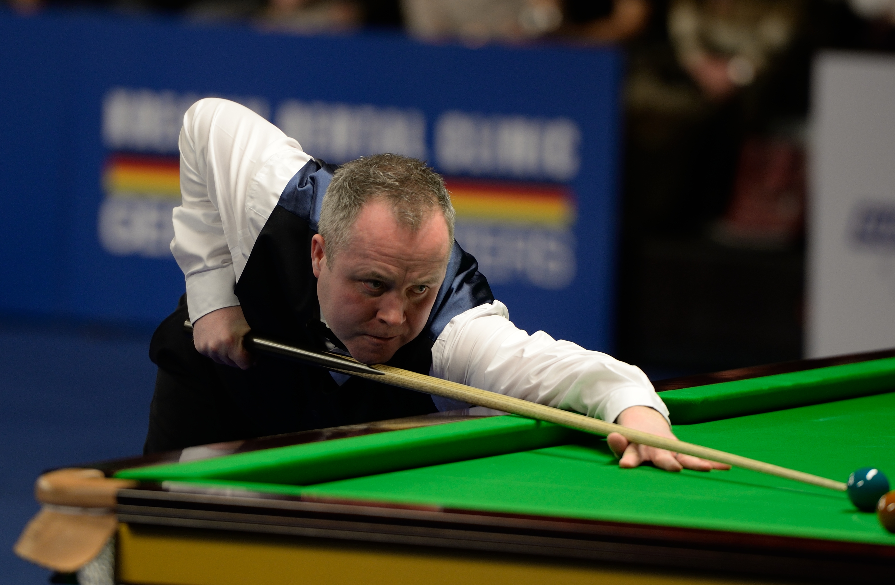 Picture taken in Berlin during the Snooker German Masters in 2015. John Higgins.